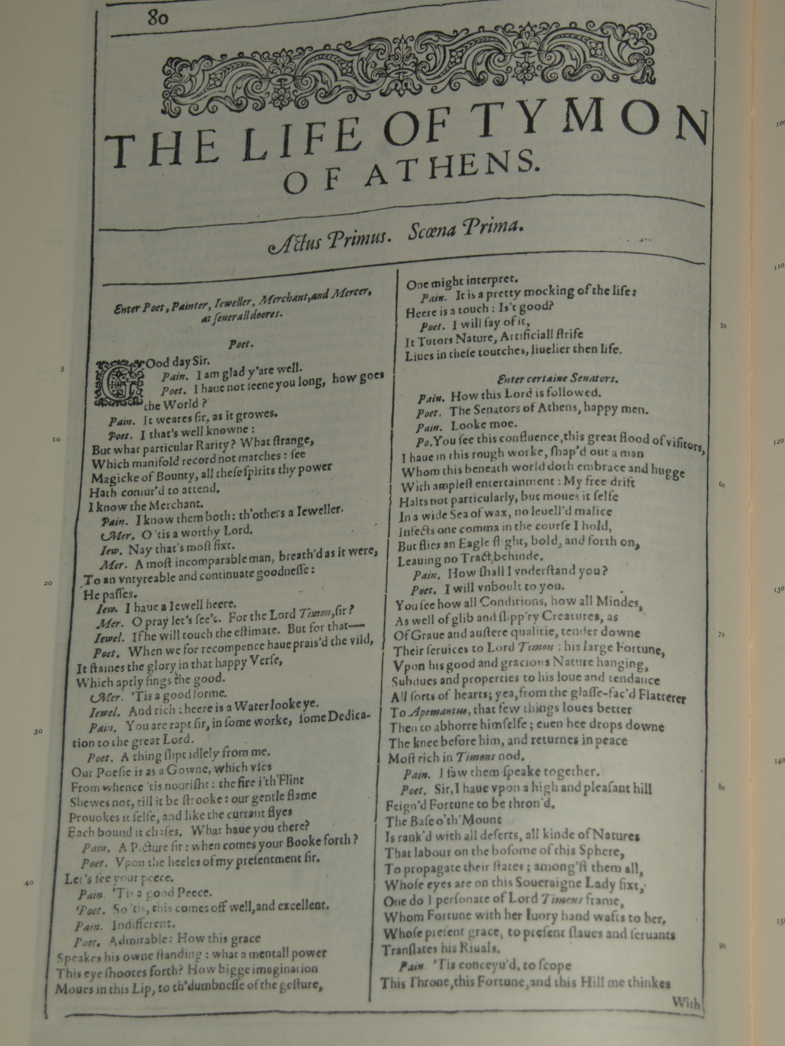 Photo of the first page of Timon of Athens from a facsimile edition of the First Folio of Shakespeare's plays, published in 1623